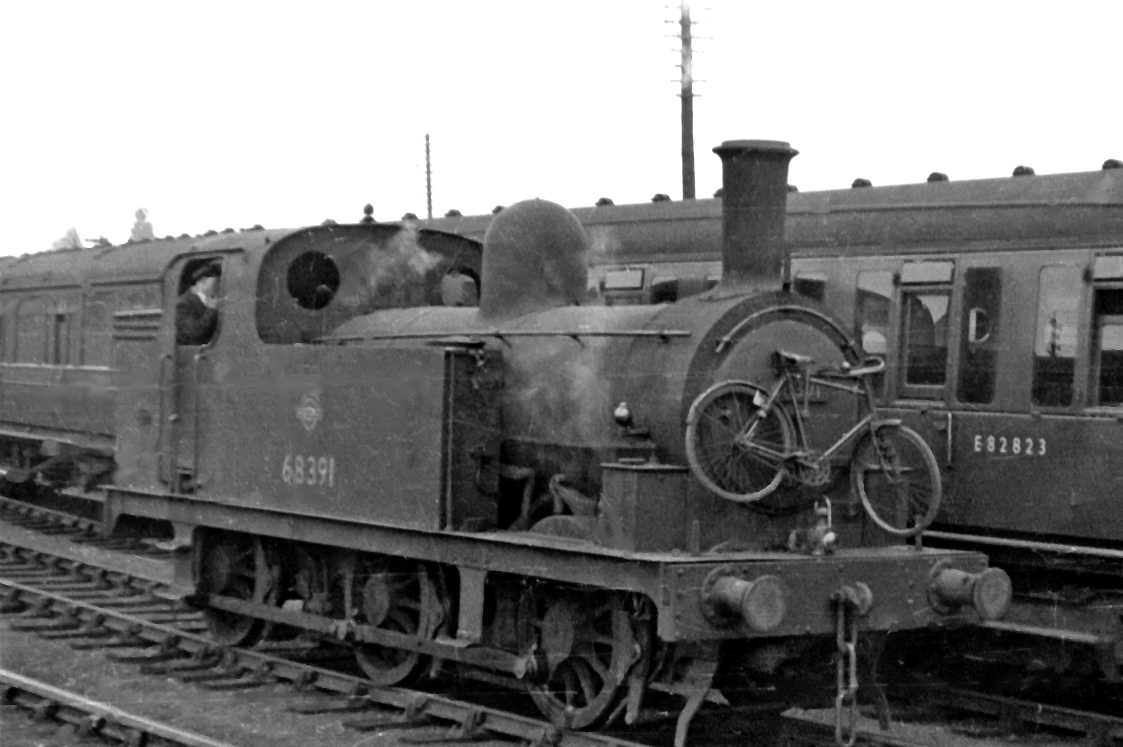 Ex-North Eastern J77 0-6-0T at Bishop Auckland. The J77 class of 0-6-0T were Worsdell rebuilds in the early 20th century of superfluous Fletcher 'Bogie Tank Passenger' 0-4-4T's: No. 68391 (ex. 953) here having been built in 1874 and rebuilt in 1904 - it survived until 1957. Again we have one of the crew's bike being carried around (cf. NZ4920 : Ex-North Eastern 0-6-0T at Middlesbrough Locomotive Depot).